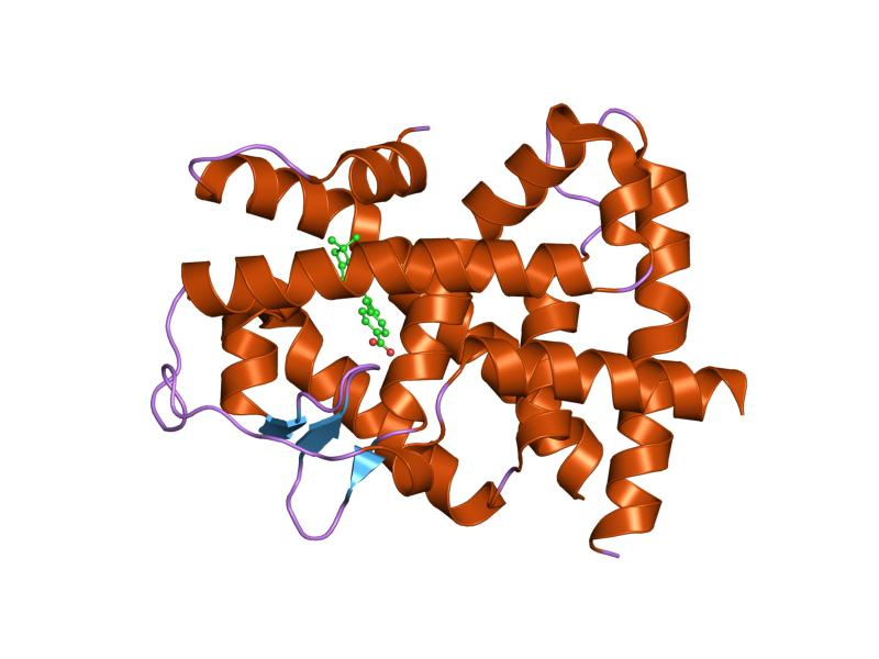 Cartoon representation of the molecular structure of protein registered with 1xap code.